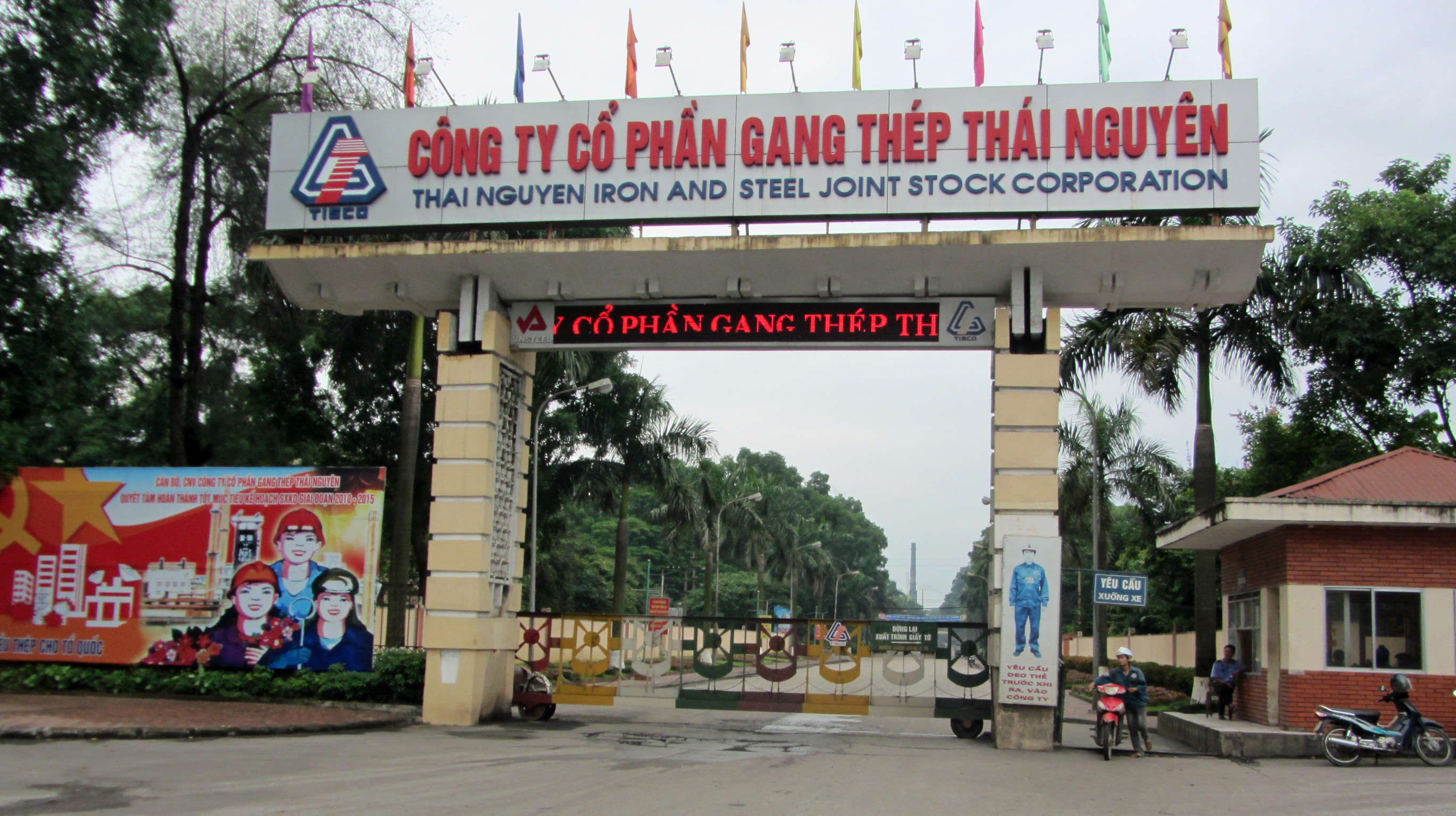 Gateway to TISCO steel mill, Thai Nguyen, Vietnam. TISCO was Vietnam's first steel mill, founded in 1959.